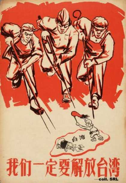 Poster showing Chinese soldiers liberating Taiwan.